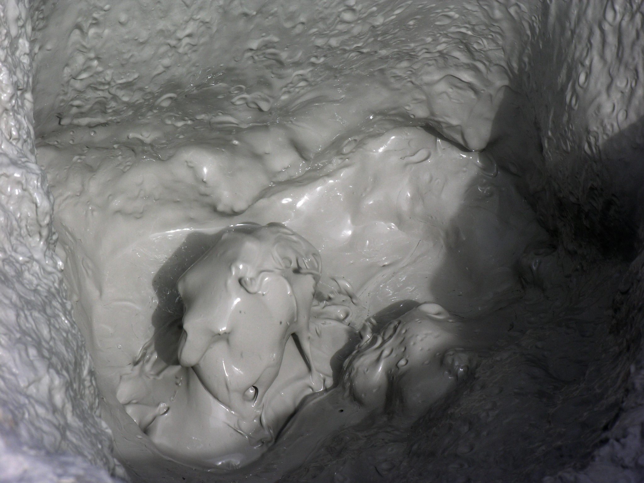 Iceland, Hengill